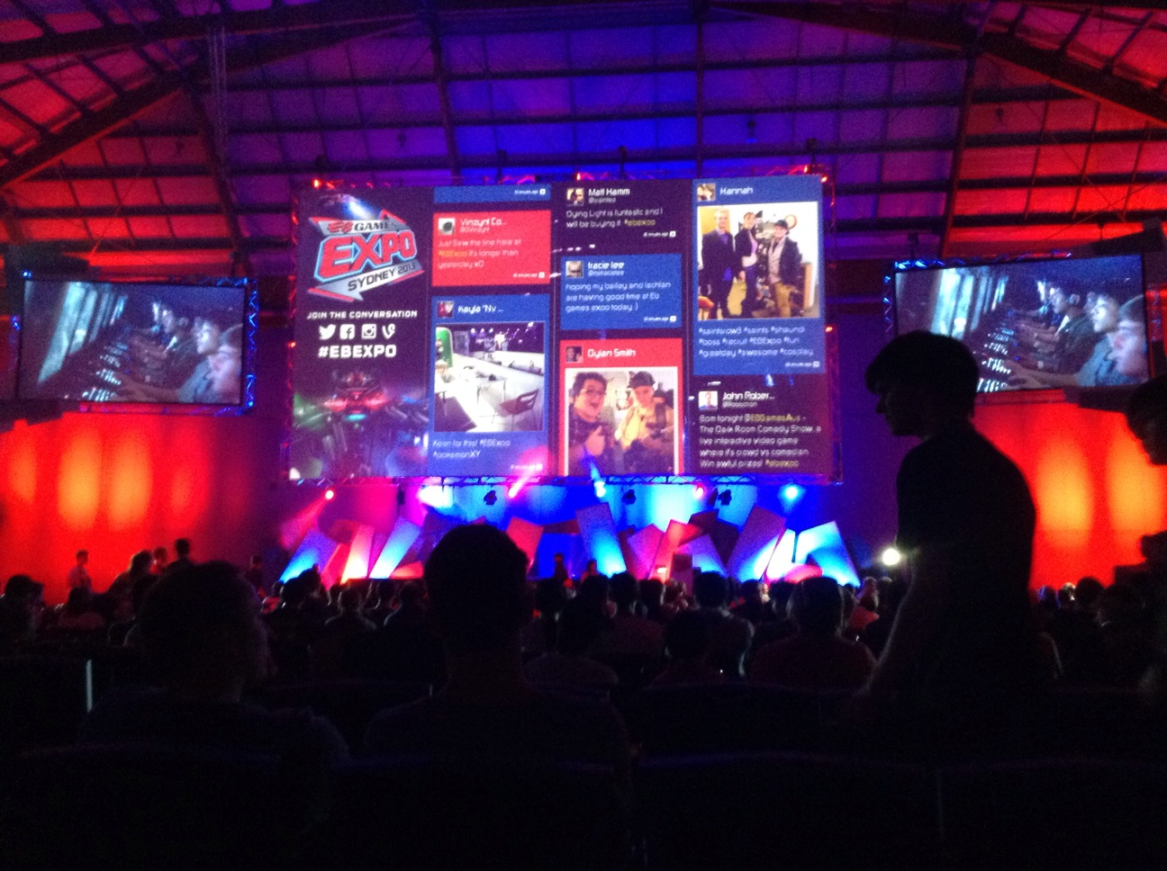 A floor seat view of the stage in the EB Arena, where entertainers and major publishers would take stage and make a presentation during the Expo. The Arena took up the entirety of Hall 4 at the Sydney Showground, and was able to seat 3,000 attendees.